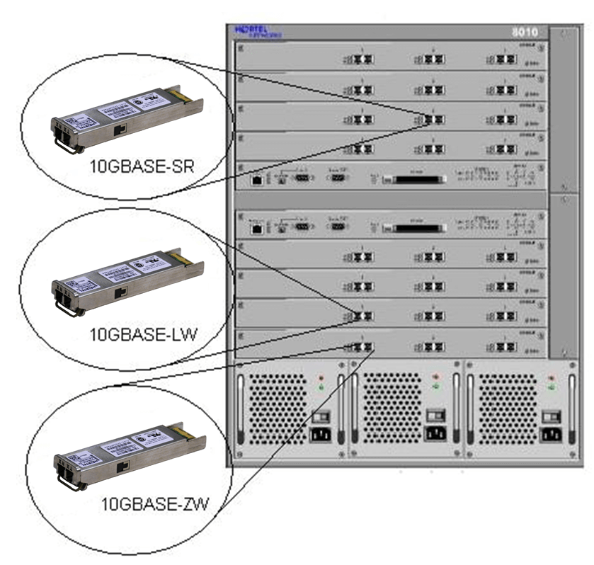 Avaya-10G-ERS-8600 with XFP call-outs